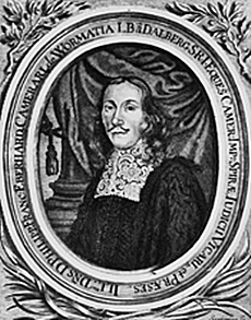 Philipp Franz Eberhard von Dalberg (1635-1698), Präsident Reichskammergericht, Domdekan in Worms